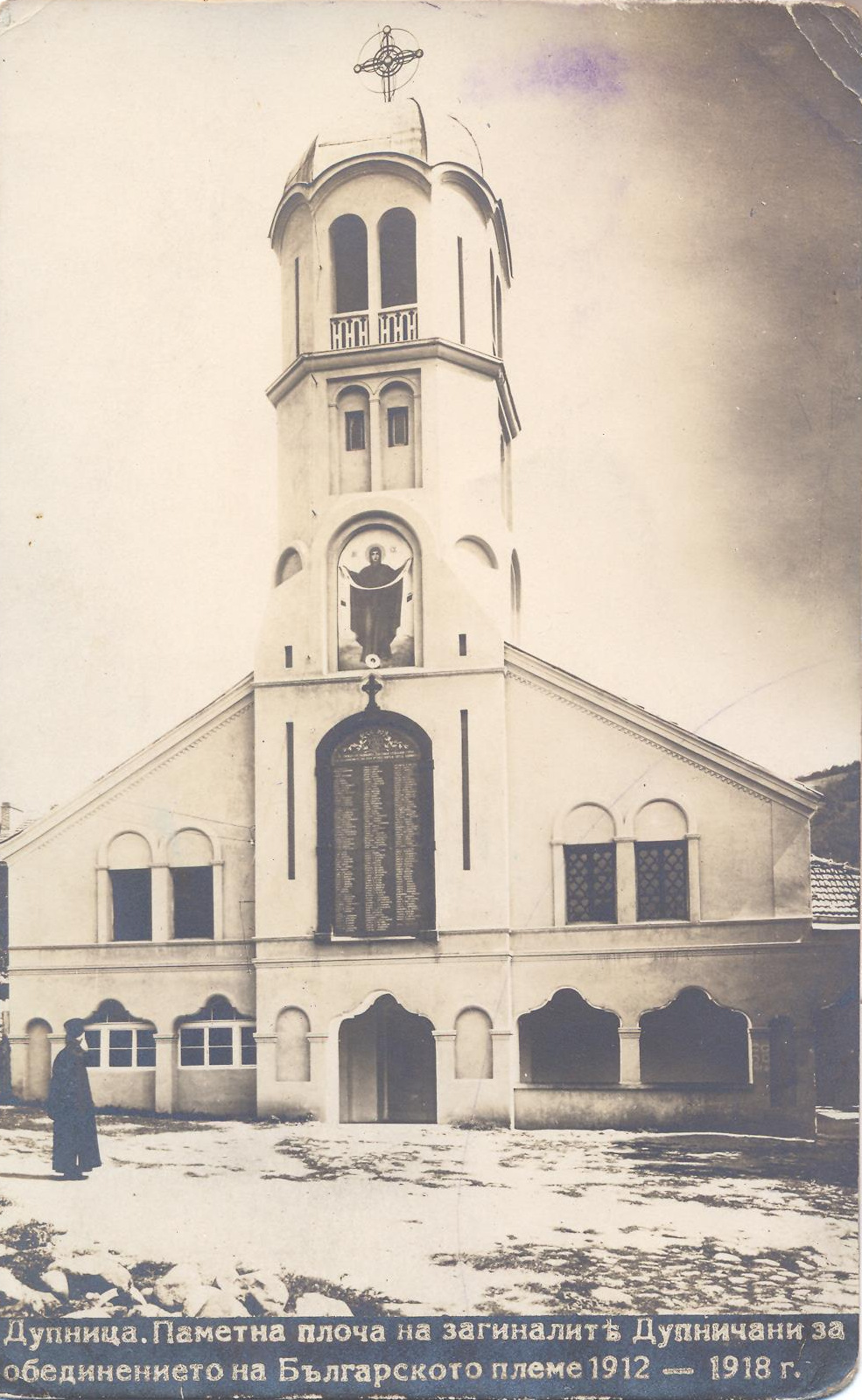 "Intercession of the Theotokos" in Dupnitsa, Bulgaria, old postcard